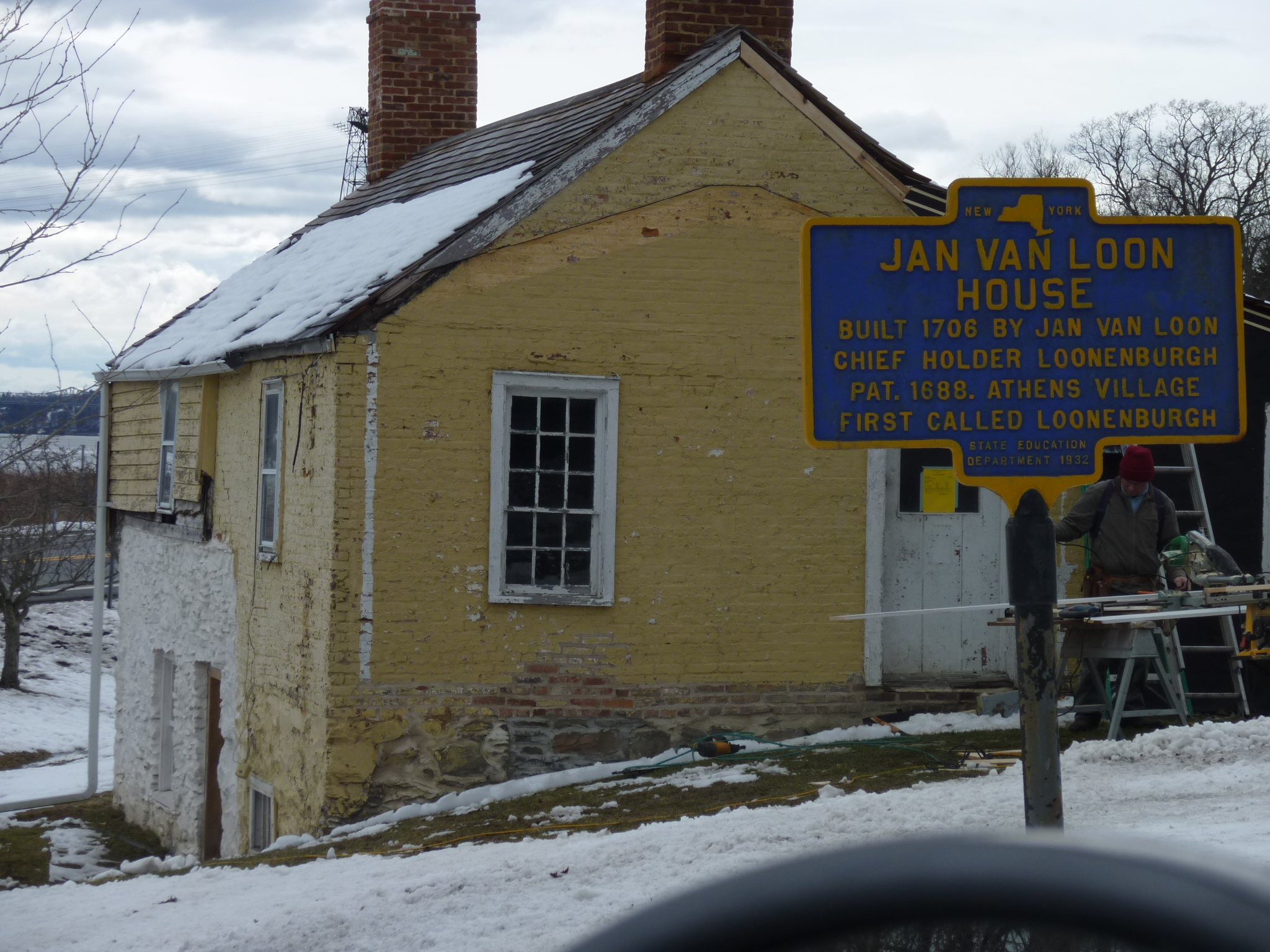 in Athens, NY